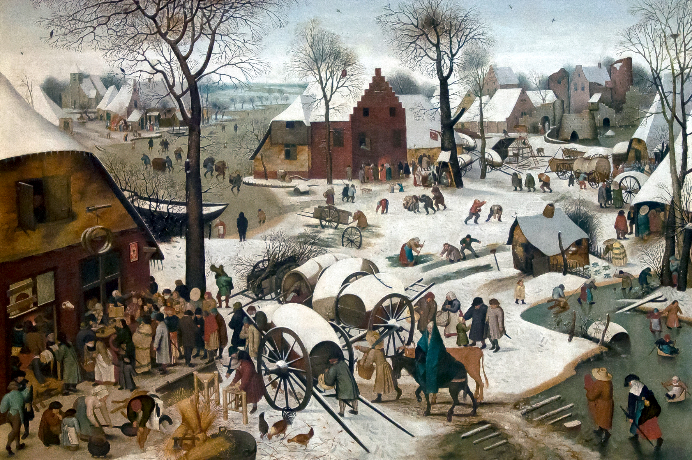 after painting by his father